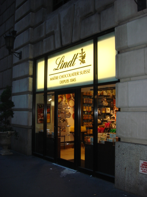 Lindt shop, 5th Avenue, New York City